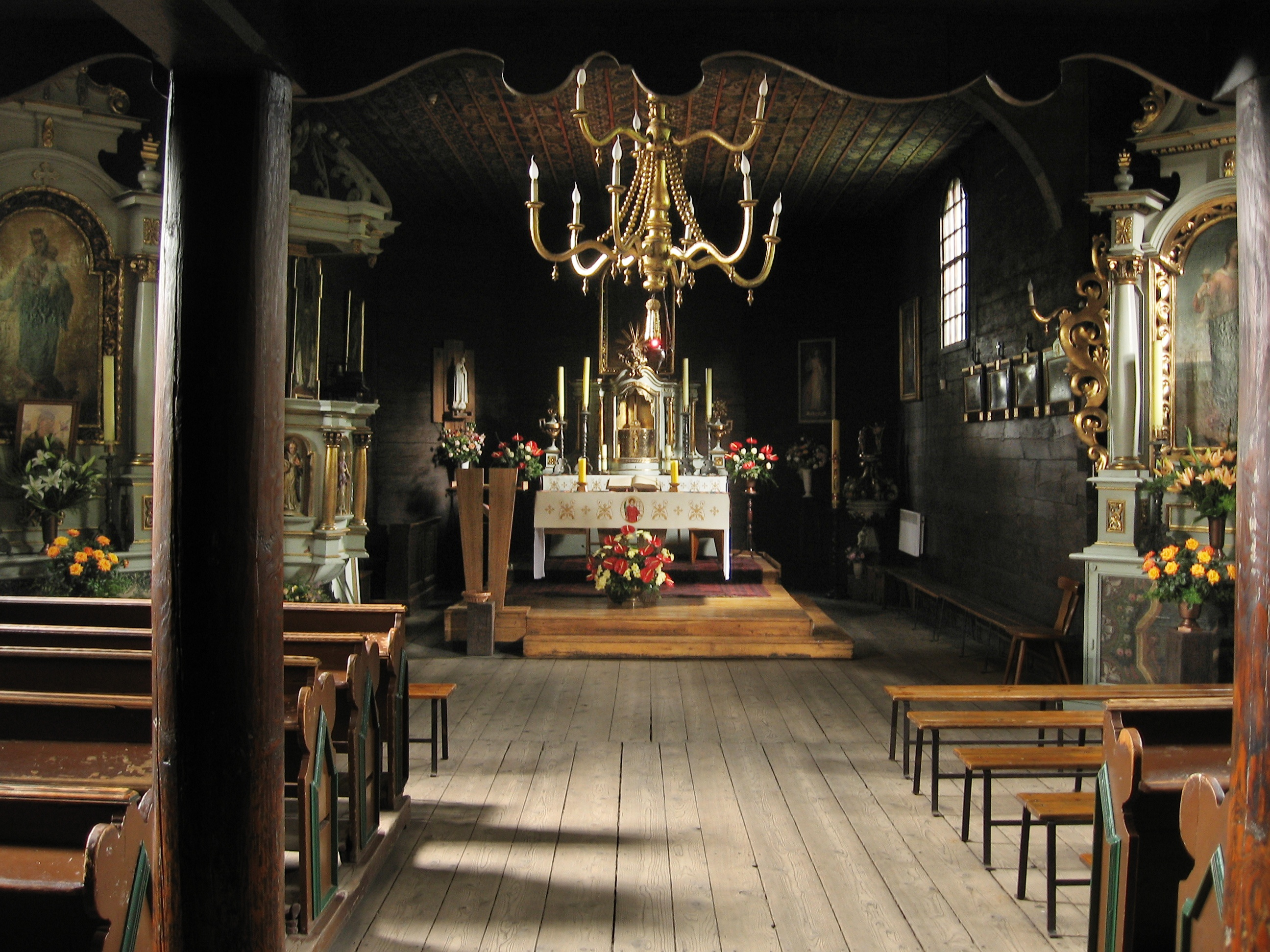 Interior of St. Lawrence church in Chorzów